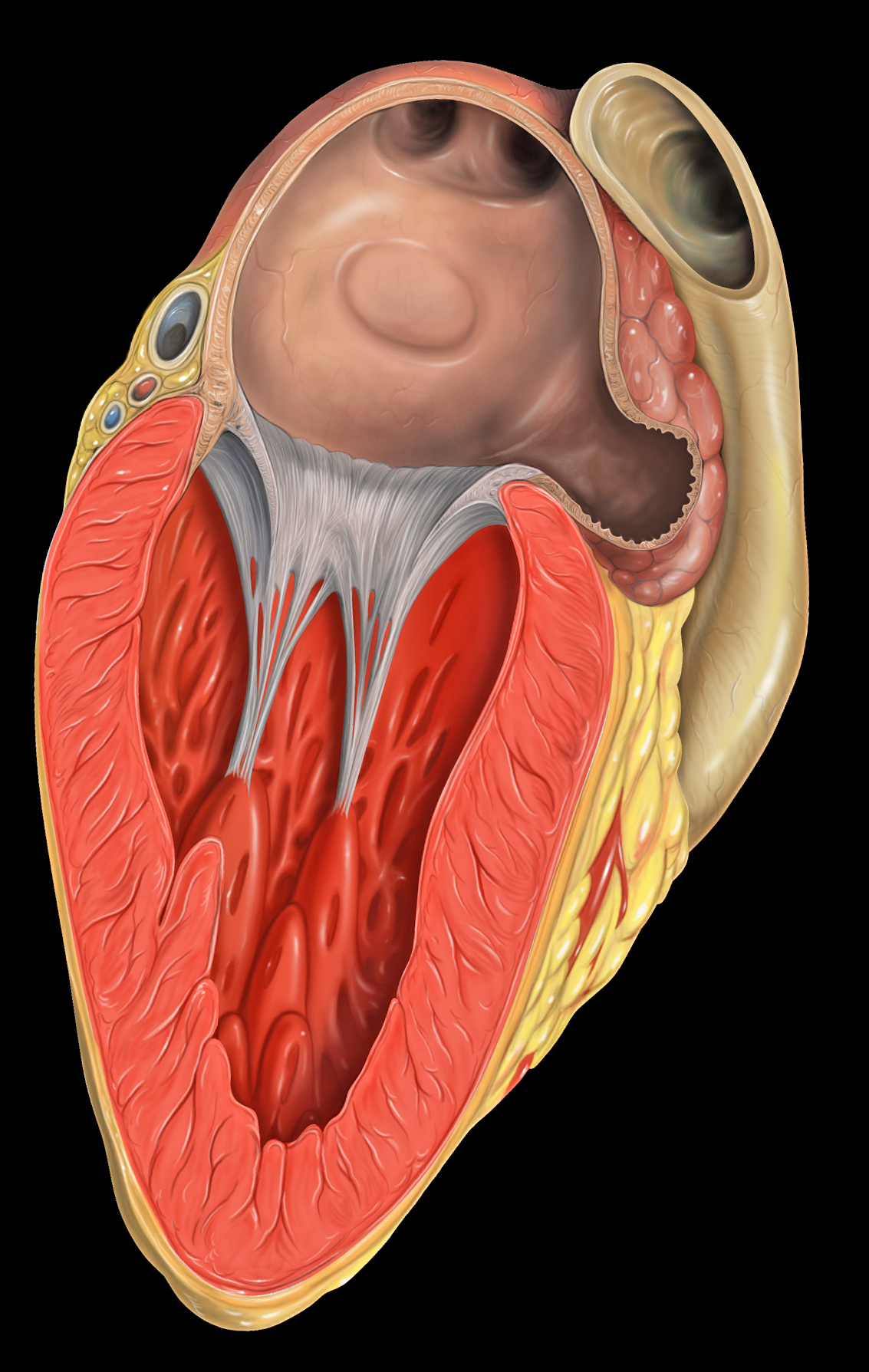 Heart left atrial appendage transesophageal echocardiography view